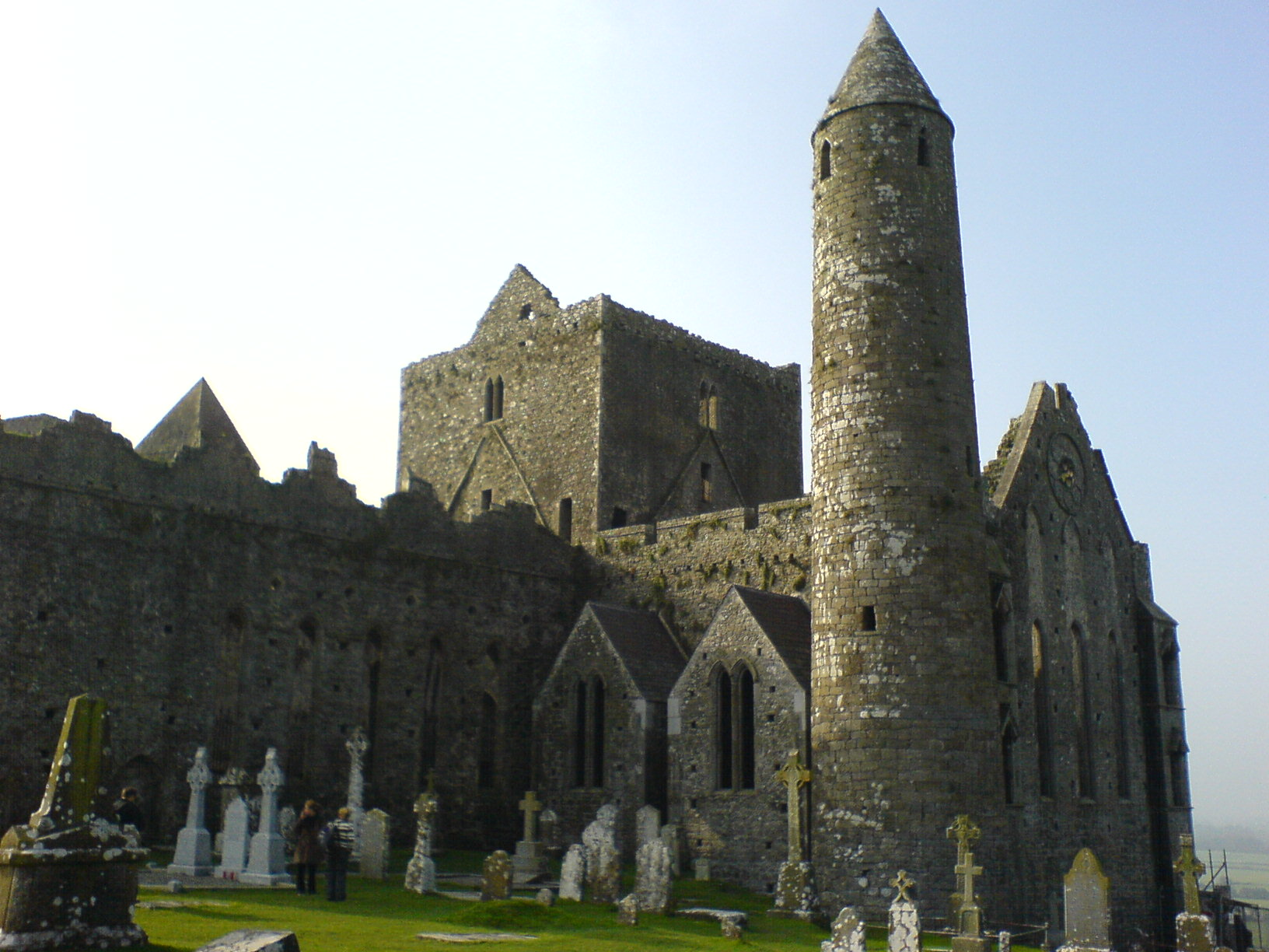 On a sunny October day after ascending the Rock of CashelPasture of Crosses